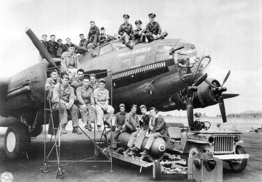 This B-17F, tail number 41-24577, was named Hell's Angels after the 1930 Howard Hughes movie about World War I fighter pilots. Assigned to the 358th Bombardment Squadron of the 303rd Bombardment Group, this Flying Fortress was originally commanded by Captain Id E. Baldwin. He piloted her overseas from Kellogg Field near Battle Creek, Michigan, to RAF Molesworth, England, in 1942. The bomber would fly with several commanders and numerous crewmen during her fifteen months with the Eighth Air Force In the European Theater. The aircraft was the first B-17 to complete 25 combat missions in Eighth Air Force, doing so May 14, 1943. she is seen here having completed her thirty-first mission. Hells Angels was returned to USA after 48th mission Dec 13, 1943. Scrapped Aug 14, 1945.